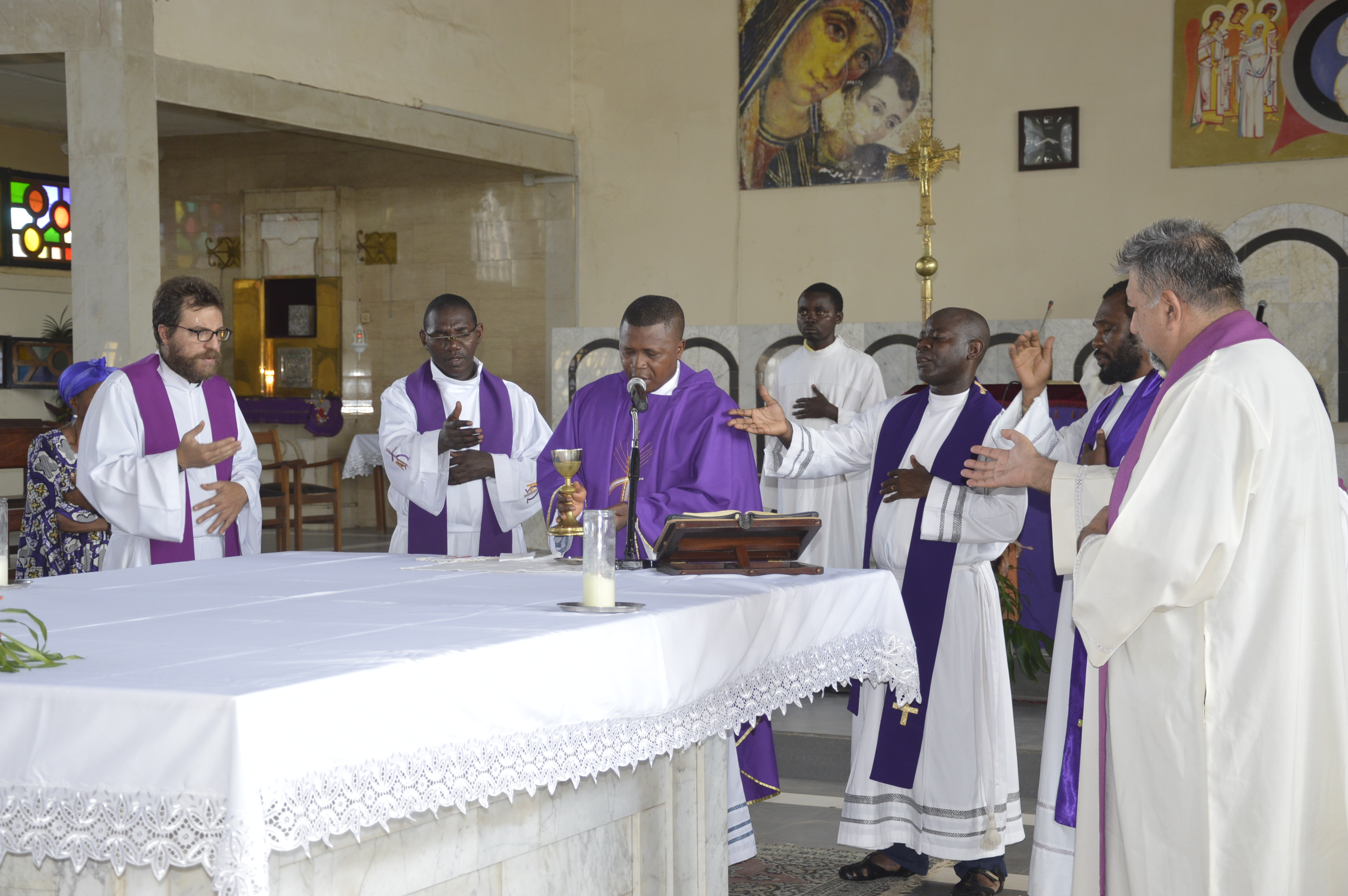 Oraison funèbre avec les prêtres à Douala This is an image of "African people at work" from Cameroon